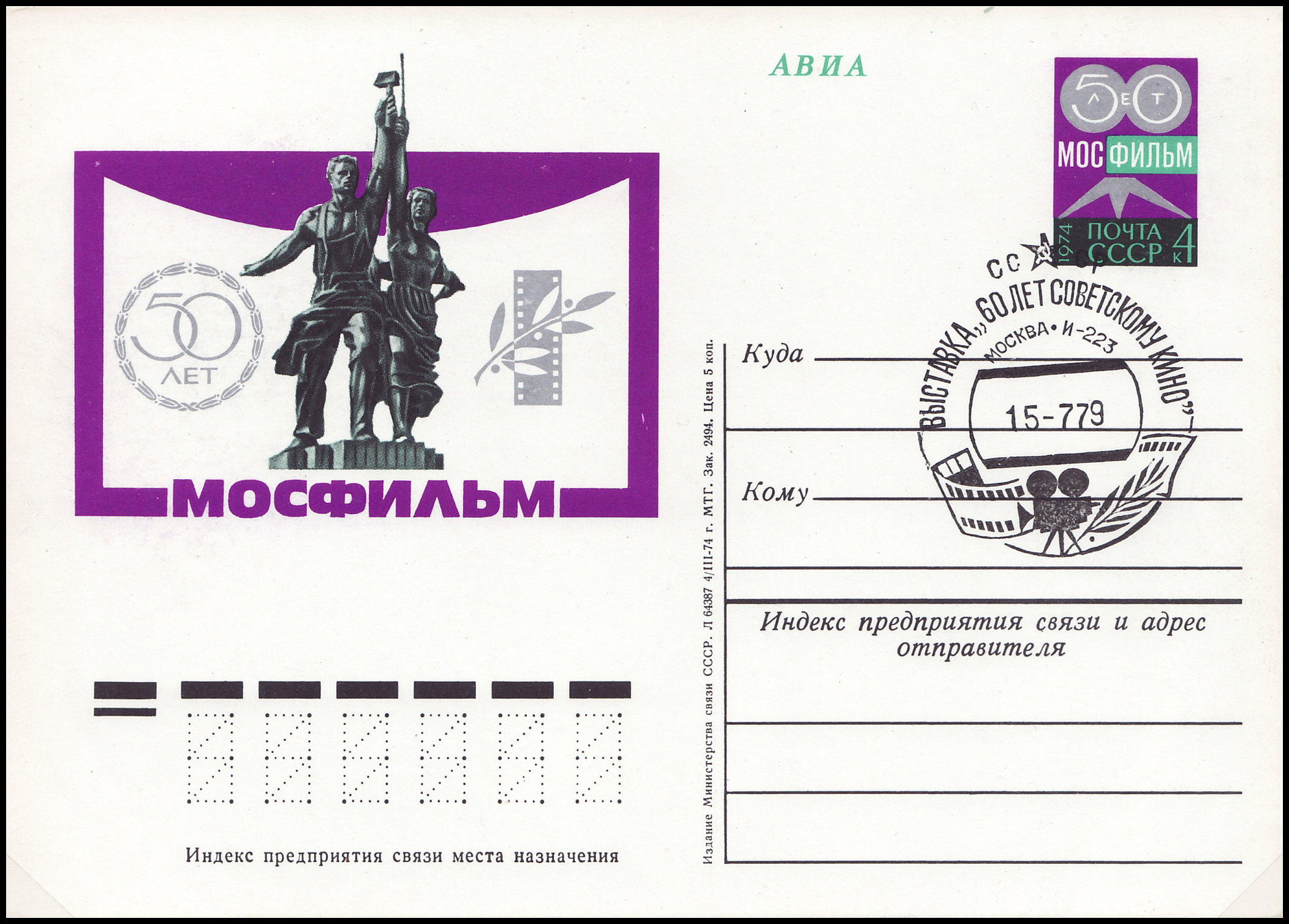 USSR, 1974. Postal card with commemorative stamp. Airmail. "The 50th anniversary of the film studio"Mosfilm" (CPA Catalogue №18). Stamp: Image of movie camera; commemorative text. Illustration: "Worker and Kolkhoz Woman" - the emblem of the film studio. Painters A. Kovrizhkin. Y. Lefner. Special cancellations: "The exhibition "60th anniversary of soviet cinema" 07/15/1979 Moscow, post office I-229.